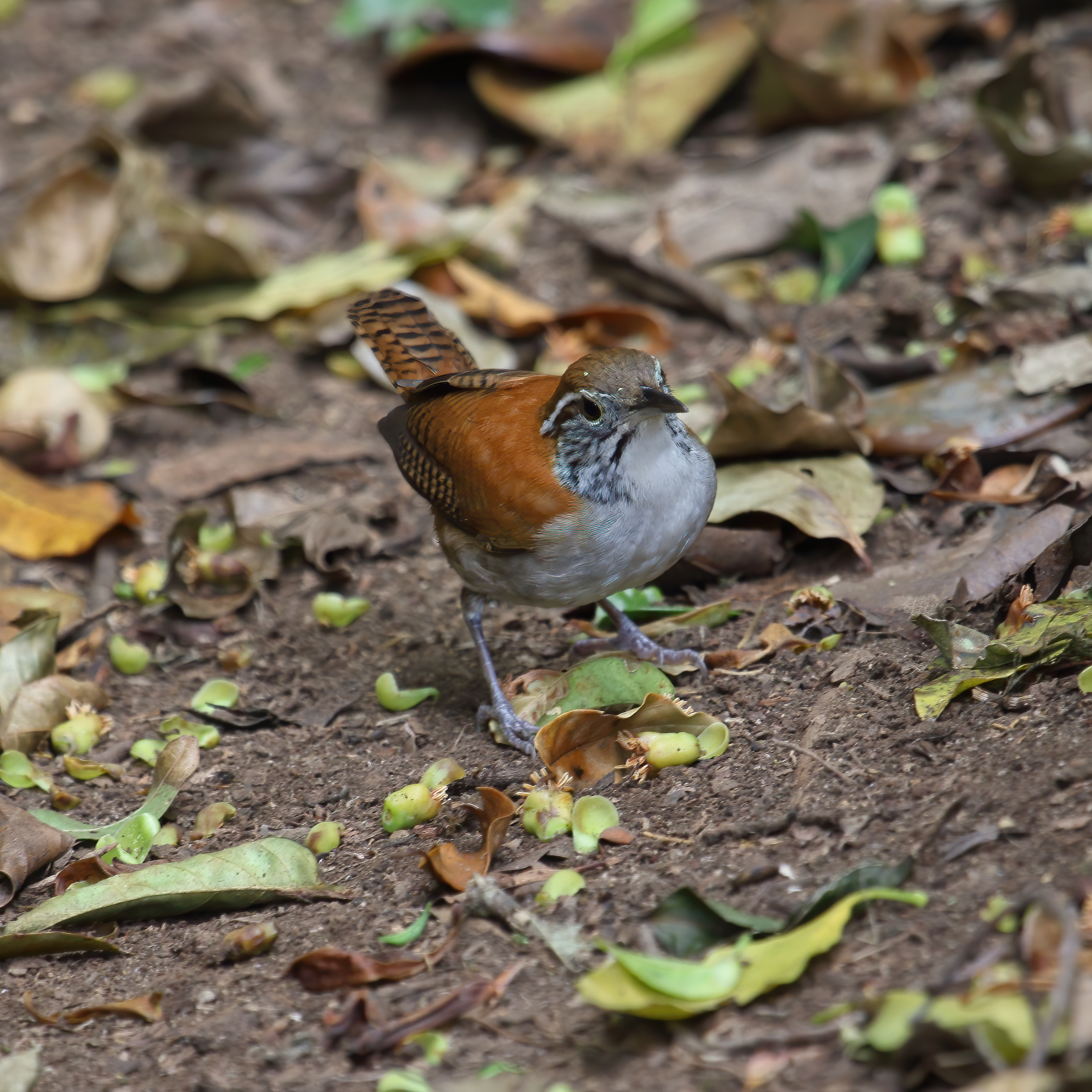 Rufous-and-white wren, Curi Cancha Reserve, Monteverde, Costa Rica.